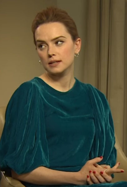 James Corden and Daisy Ridley in an interview for MTV International in 2018